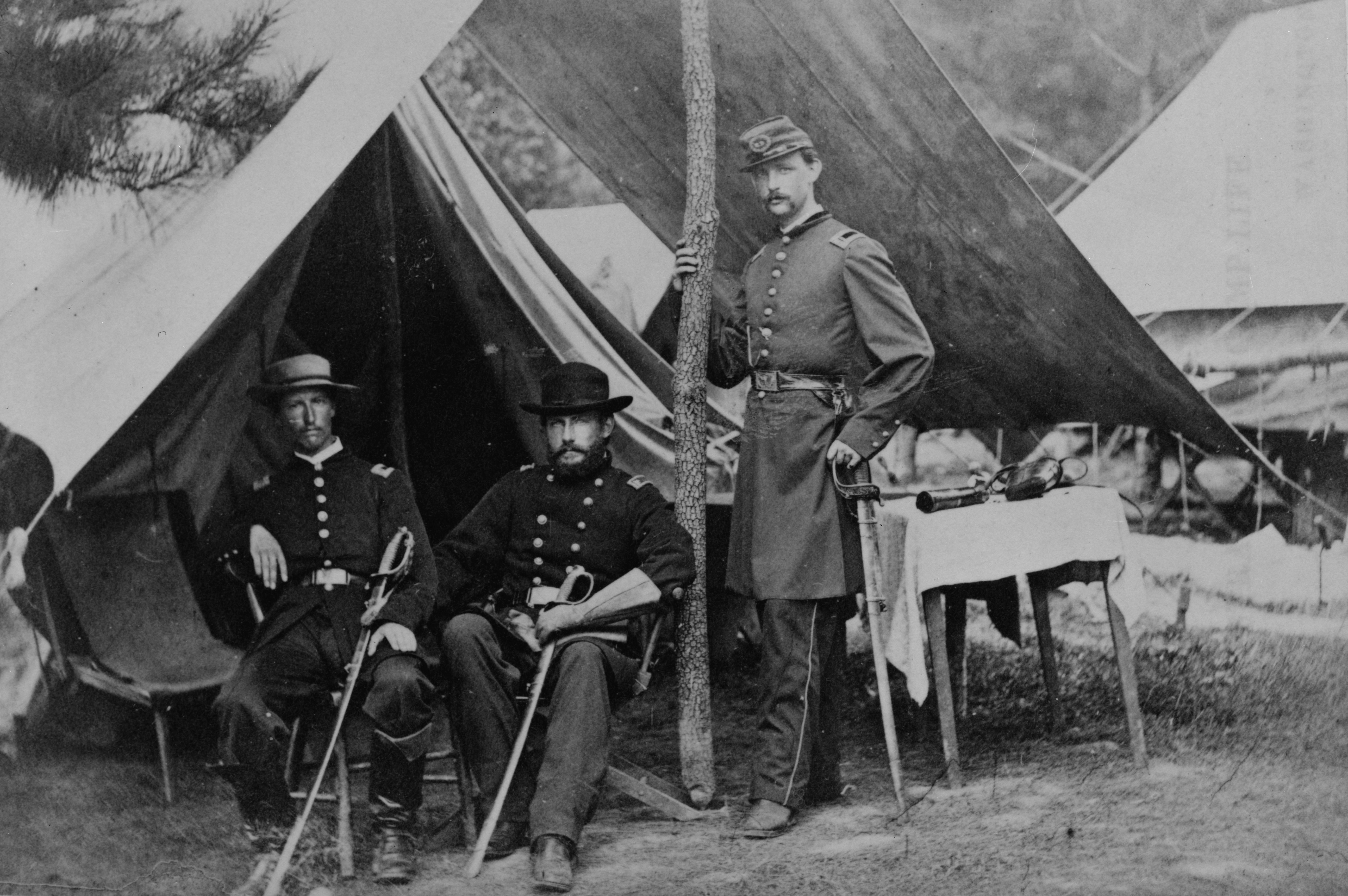 Albert J Myer in the field during American Civil War 1861–1865